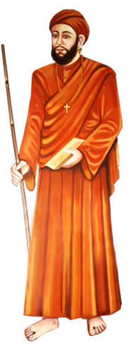 Rev. Fr. Constantine Joseph Beschi S.J. popularly known as “Veeramamuniver” built a church and named it as the church of “Mary Queen of Immaculate Conception“.